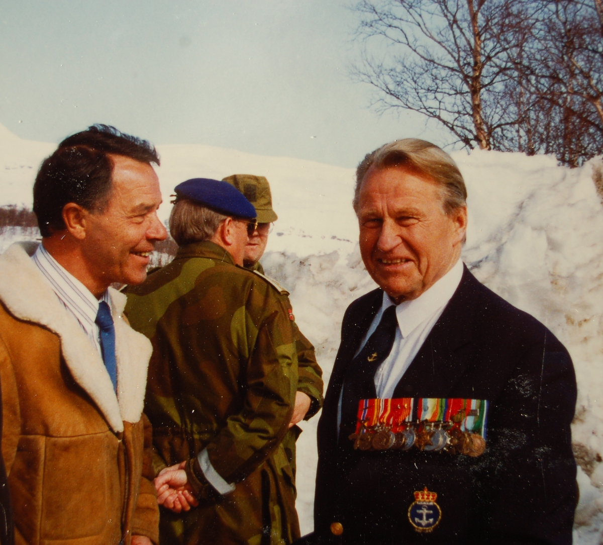 Hugo Munthe-Kaas (right) at Lapphaugen in April 1995, Jens Solnes (left). Munthe-Kaas was a receipient of Krigskorset med sverd (War Cross with Sword), awarded in 1943.